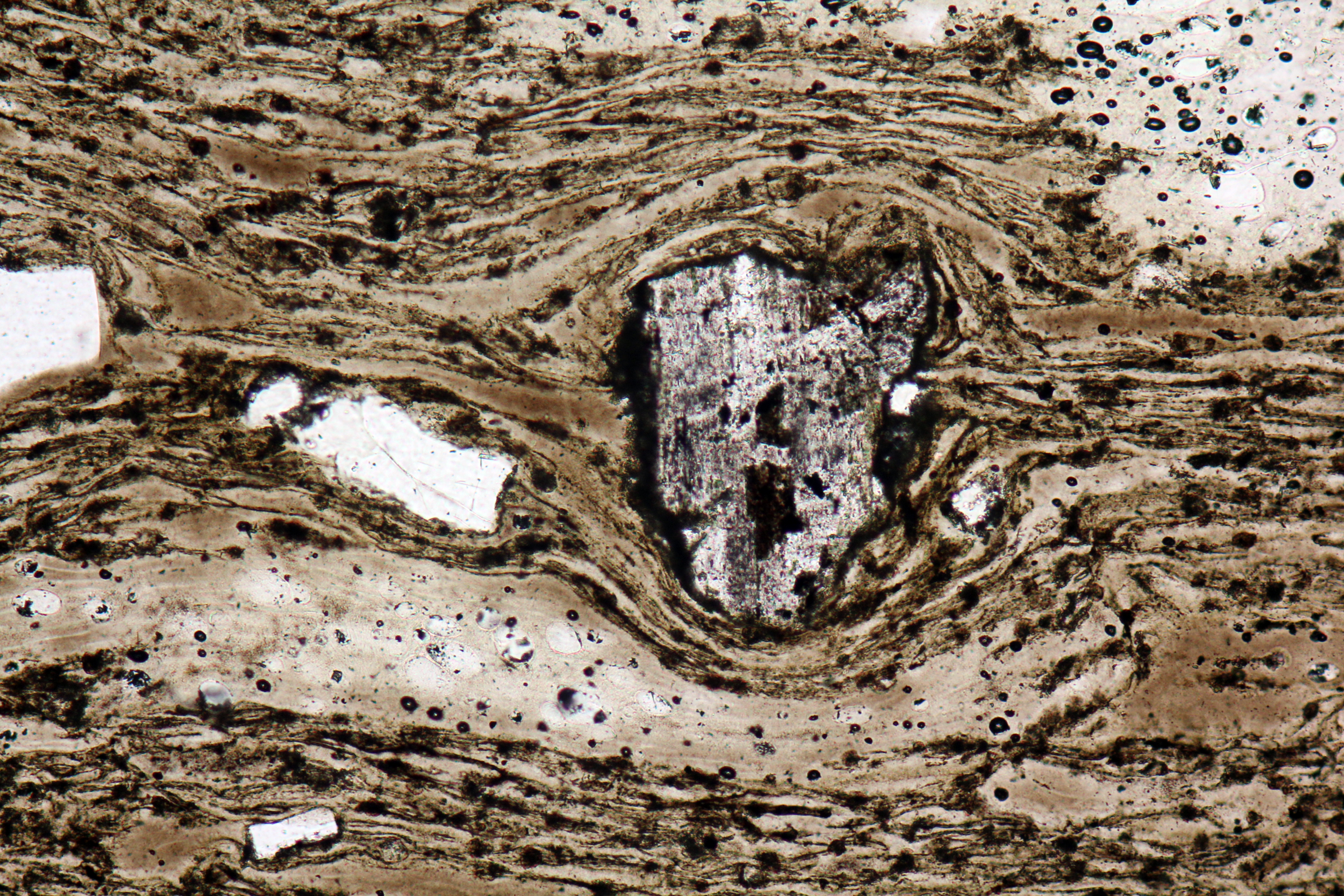 A little Xenolith (a foreign piece of rock, inside another rock) embedded in a fluidal, glassy, groundmass in a Pantellerite from Pantelleria (Italy). Plane polarized light image, magnification 10x (Field of view = 2mm)